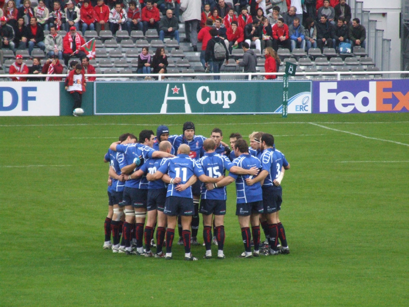 Picture taken on December 17, 2006 at Parc des Sports d'Aguilera in Biarritz, France.